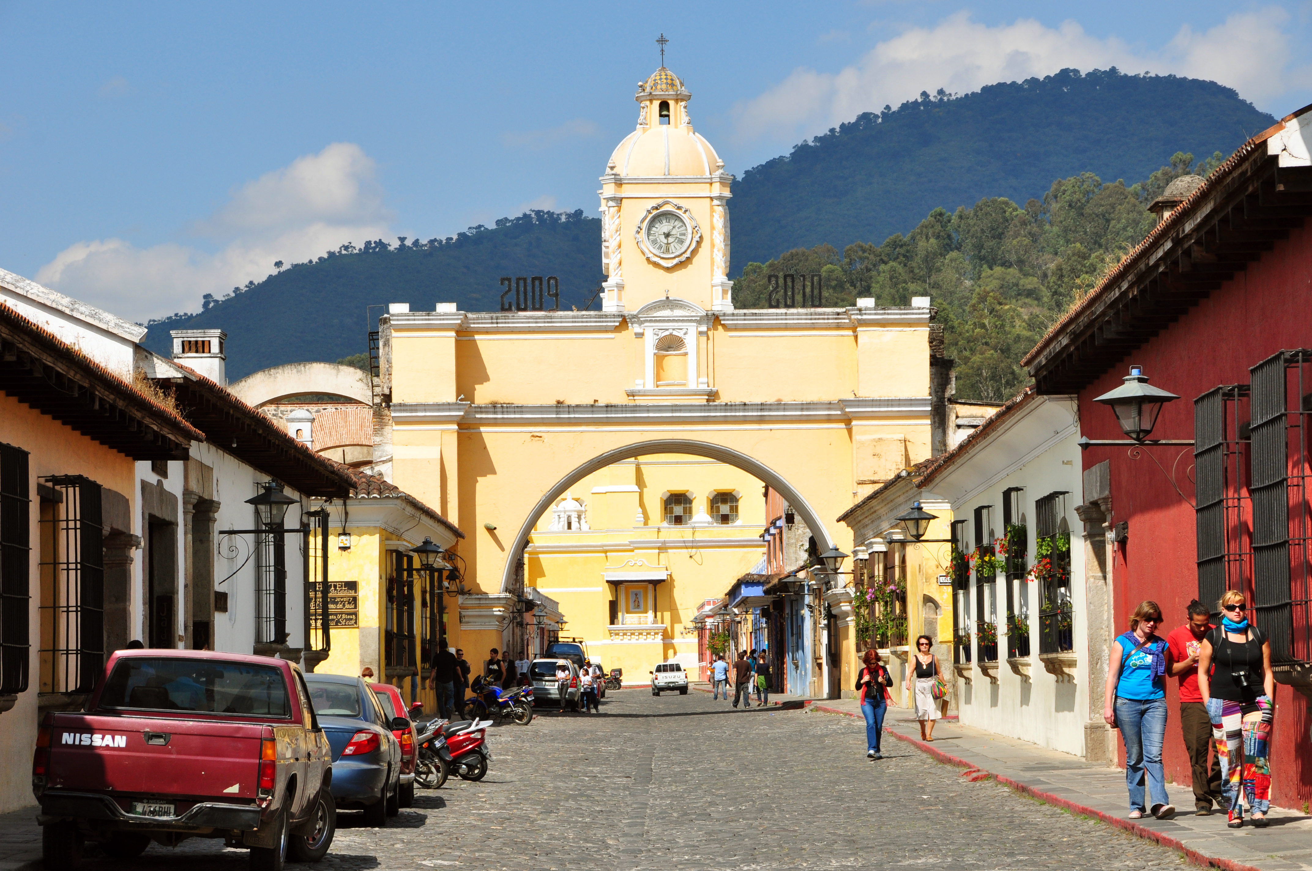 Antigua Guatemala Santa Catalina archway 2009